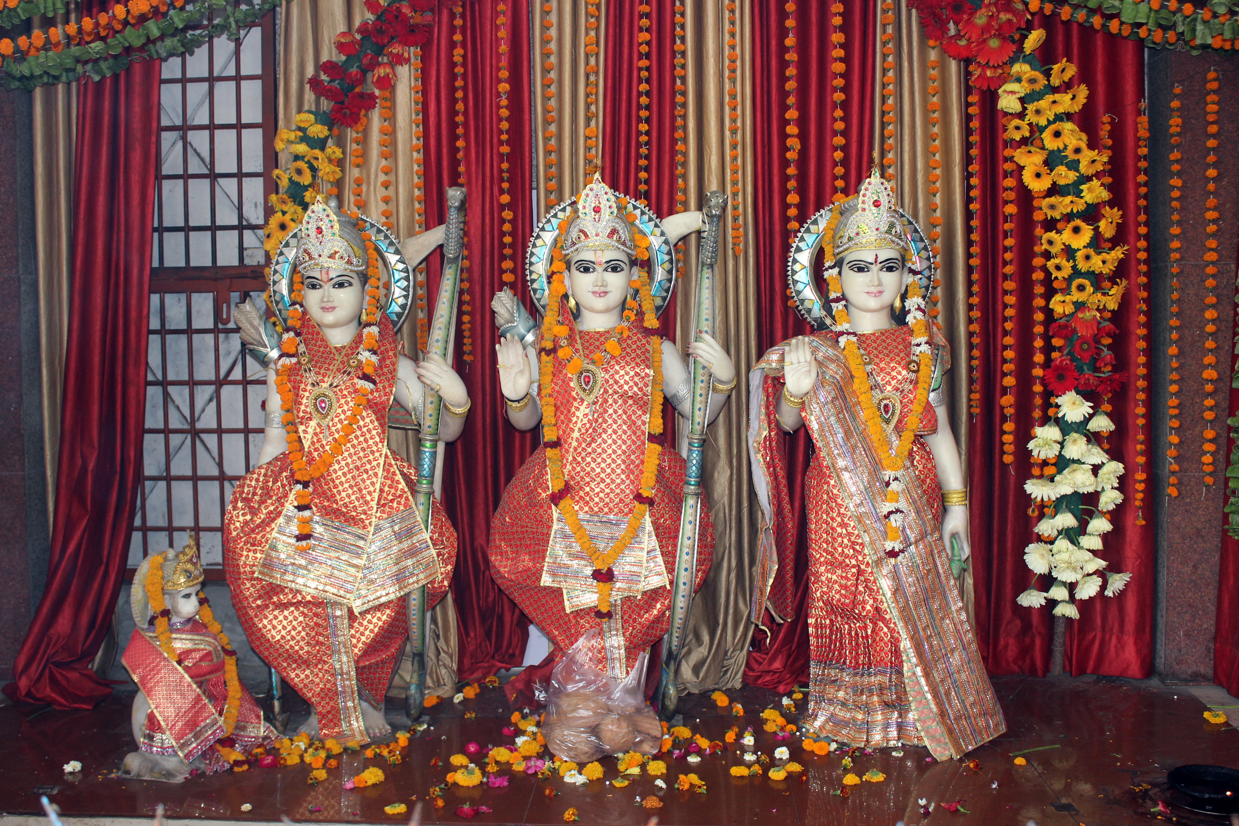 Ram Darbar at 1100 qtrs temple Bhopal